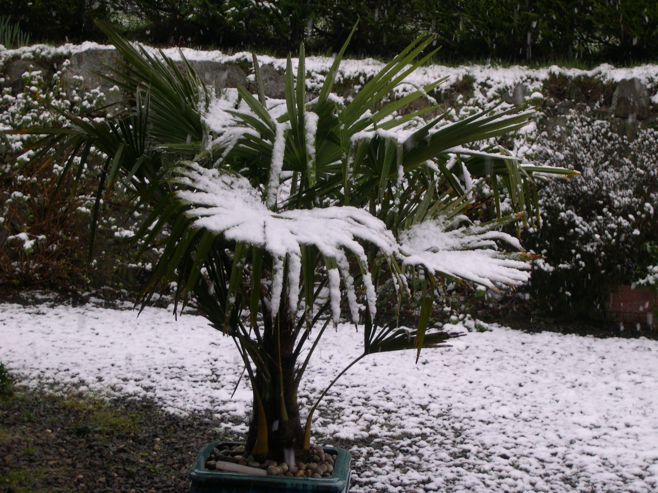 Snow on Trachycarpus fortunei